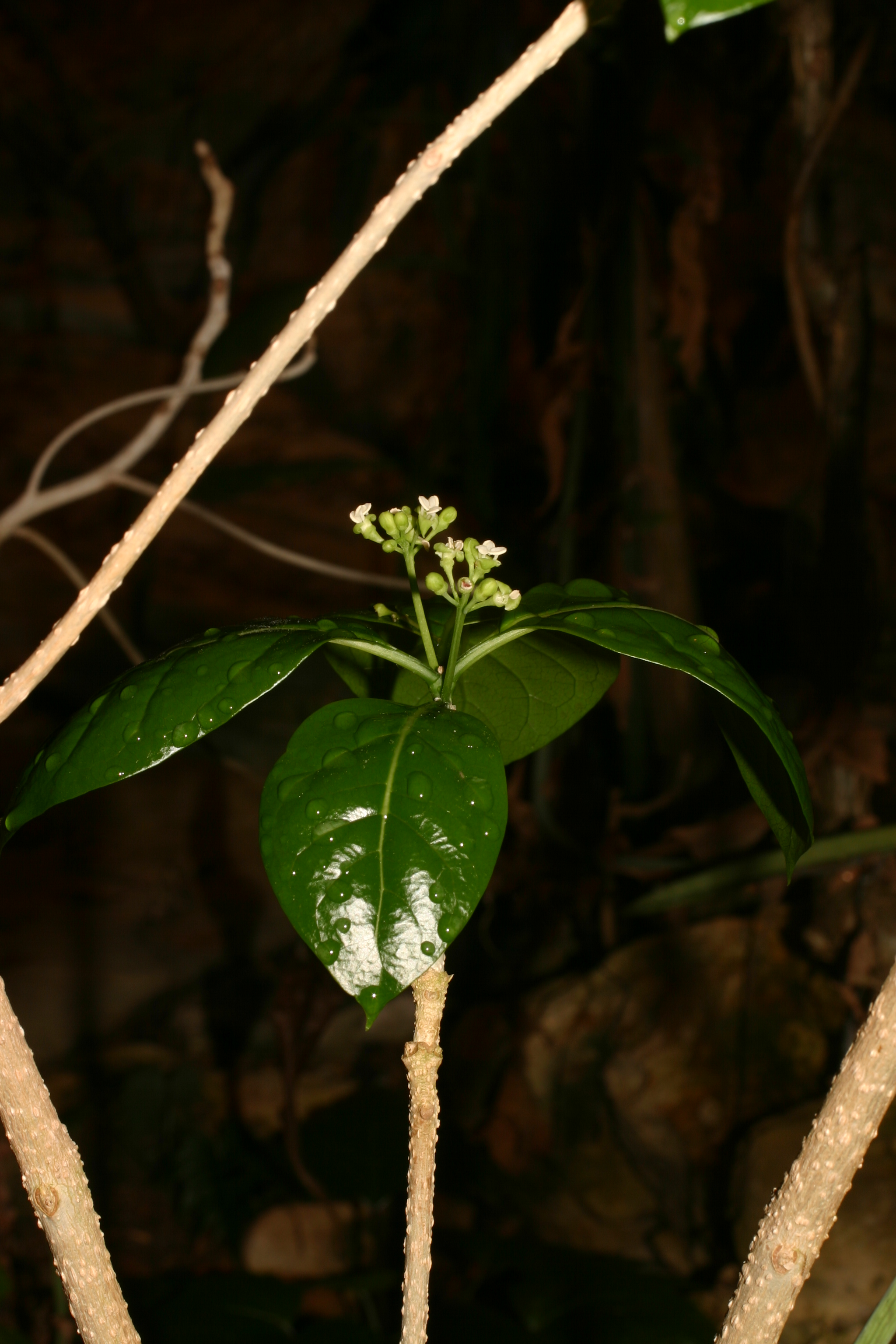 Inflorescence with male flowers of Grevea madagascariensis Bail., Collection Number RMM 475, collected near Maintirano/Madagascar, cultivated at Palmengarten Frankfurt